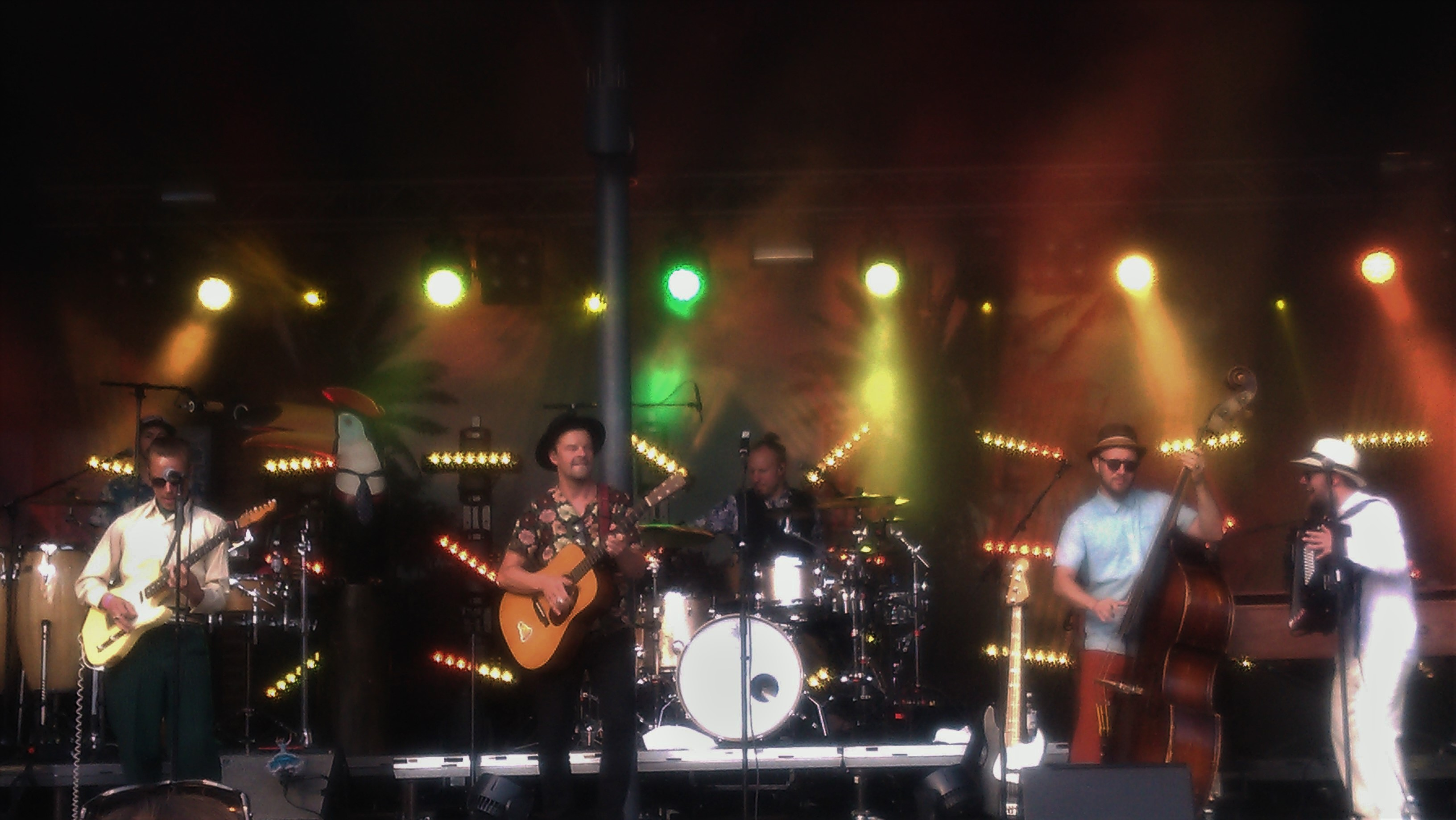 Tuure Kilpeläinen ja Kaihon Karavaani at the Iskelmäkesä Festival in Hyvinkää, July 29, 2017